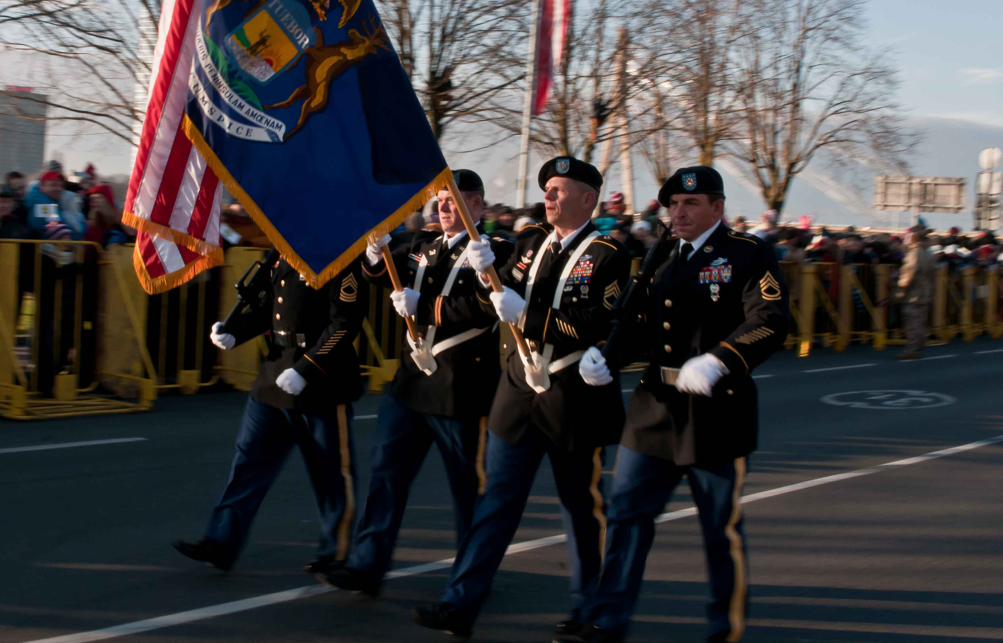 A Michigan National Guard U.S. color guard marches past a crowd in Riga, Latvia as part of the Latvia Day ceremonies marking the 96th year of the country's indepence November 18, 2014. Latvia and the Michigain Army National Guard have been partners for over 20 years as part of the U.S. European Command State Partnership Program. The parade also included soldiers from Company A, 2nd Battalion, 8th Cavalry Regiment, 1st Brigade Combat Team, 1st Cavalry Division as well as other NATO partners. These activities are part of the U.S. Army Europe-led Operation Atlantic Resolve land force assurance training taking place across Estonia, Latvia, Lithuania and Poland to enhance multinational interoperability, strengthen relationships among allied militaries, contribute to regional stability and demonstrate U.S. commitment to NATO. (U.S. Army Photo by Sgt. 1st Class Jeremy J. Fowler)